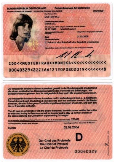 Diplomatic ID - Type "D" - in Germany